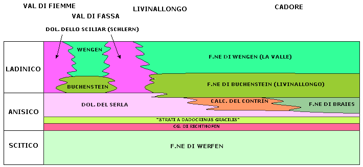 Stratigraphic scheme of Lower-Middle Triassic in the Dolomiti Mountains (Northern Italy).